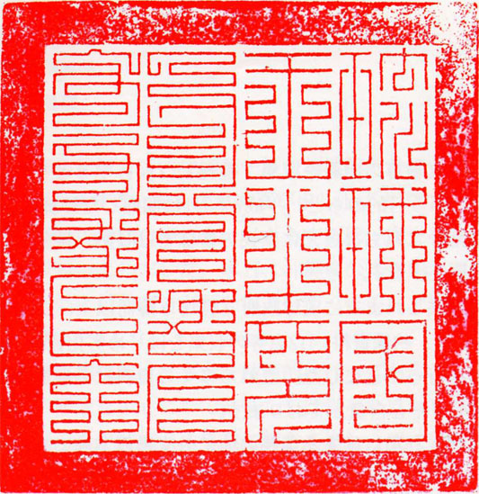 琉球國王之印(the royal seal of Ryukyu Kingdom). The two right columns are in Chinese script and the two left column are in seal Manchu script.